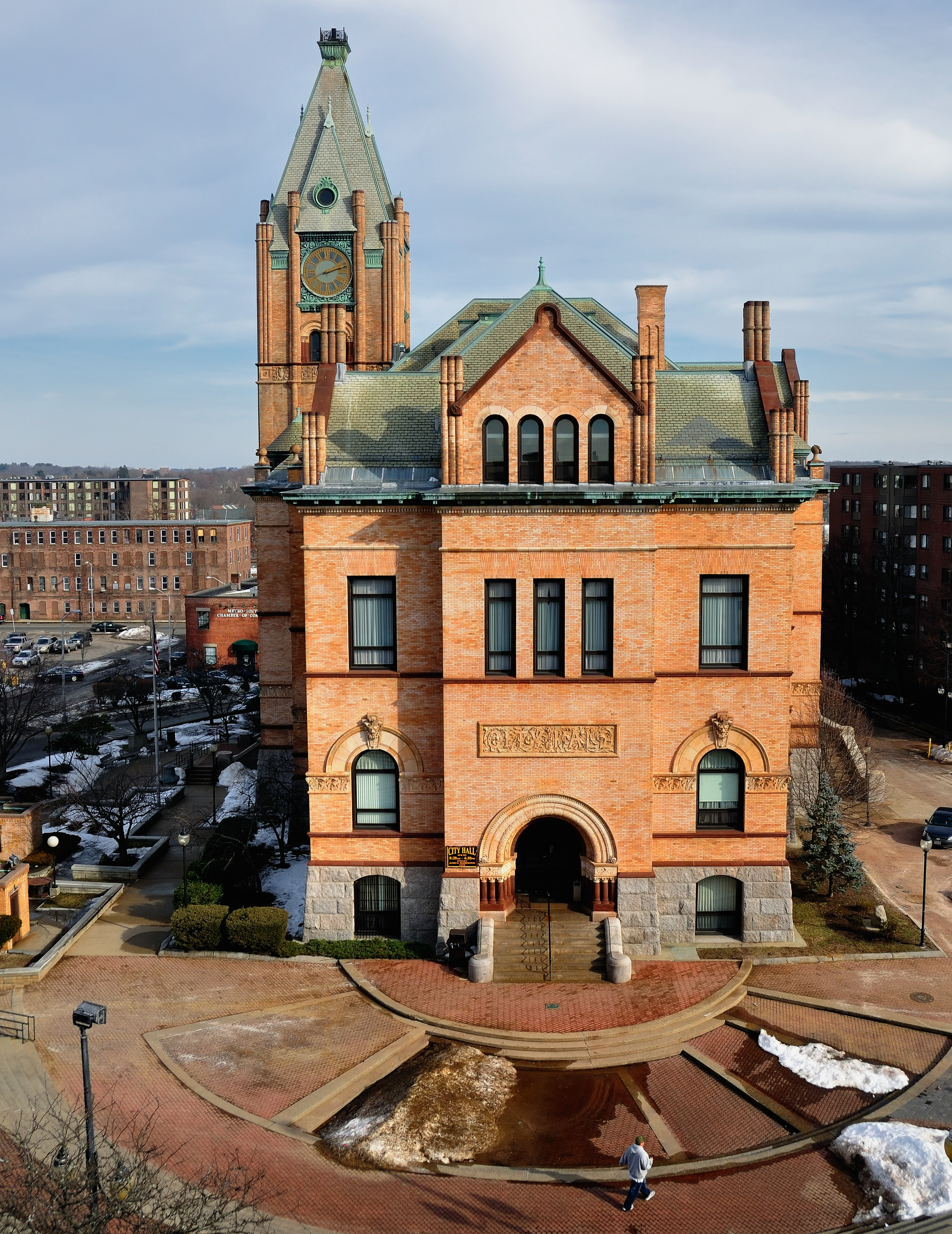 Brockton City Hall, Brockton, Plymouth County, Massachusetts